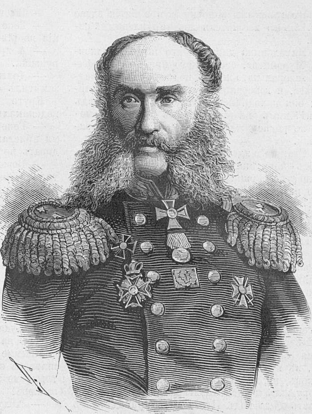 Arnoldi, Aleksandr Ivanovich